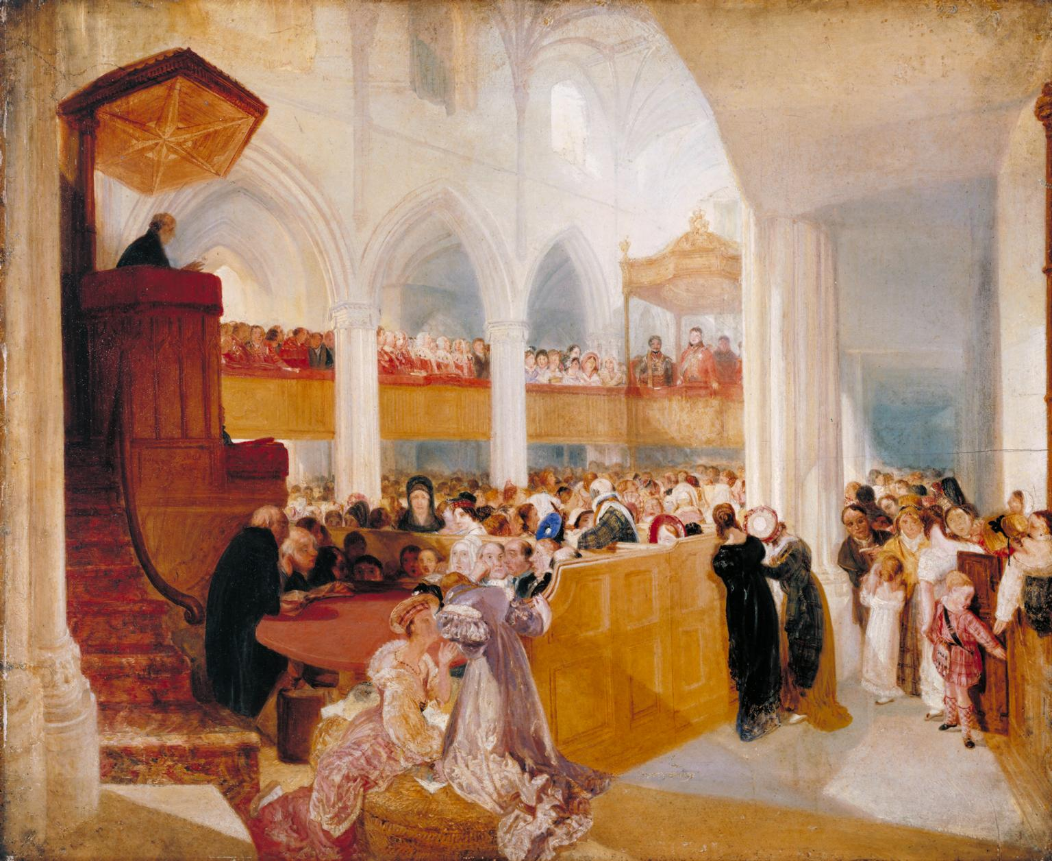 Joseph Mallord William Turner's painting of King George IV attending service at the High Kirk of Edinburgh in St. Giles' on 25 August 1822. The preacher was David Lamont, Moderator of the General Assembly of the Church of Scotland. George IV at St Giles's, Edinburgh c.1822 Joseph Mallord William Turner 1775-1851 Accepted by the nation as part of the Turner Bequest 1856